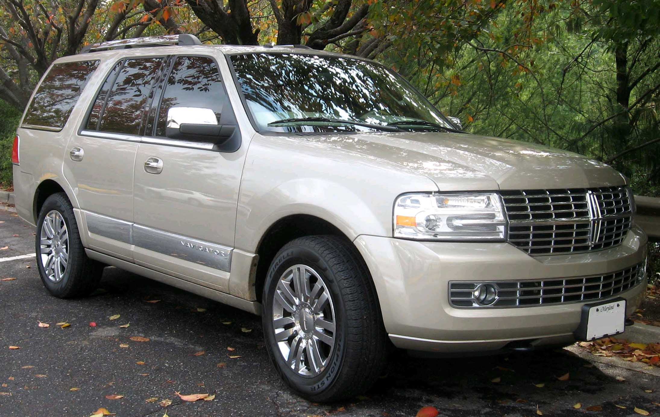 2007-2008 Lincoln Navigator photographed in Rockville, Maryland, USA.